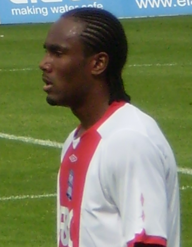 Cameron Jerome of Birmingham City F.C. during a friendly match against Gillingham F.C. at the Priestfield Stadium